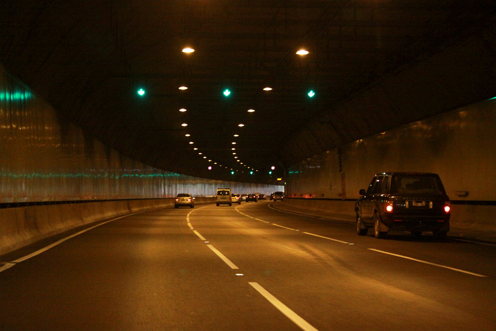 EastLink (Melbourne), inside the Melba tunnel, heading westbound